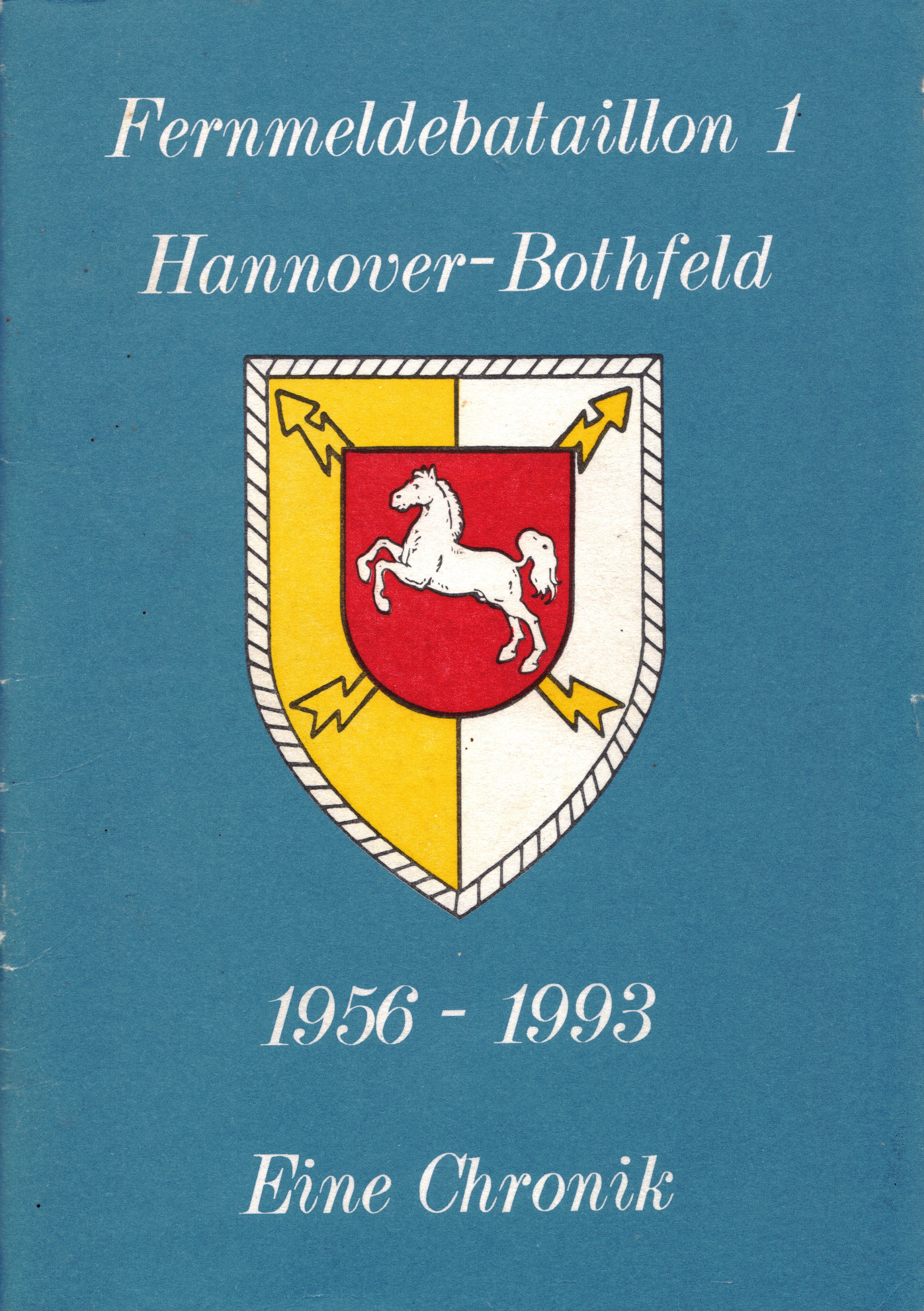 The front cover of the chronicle of the Fernmeldebataillon 1 in Hannover, 1993. Fernmeldebataillon 1 Hannover-Bothfeld 1956–1993 – Eine Chronik (author: Matthias Blazek)